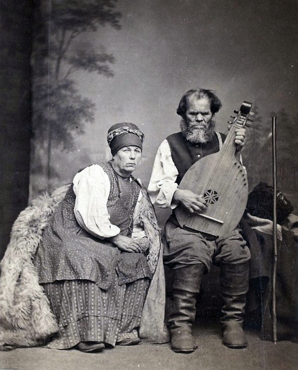 Ostap Mykytovych Veresai (1803-1890), the most famous Ukrainian kobzar/bandurist of the 19th century, and his wife Kulyna. The photo was taken in 1873 during the Archeological Congress in Kiev, at which Veresai performed. Veresai was from Poltava Oblast (Poltava province), Ukraine. He, like no other, helped in popularising kobzar art not only in his country, but also outside its borders. Veresai died in April 1890 at the age of 87 in Sokyryntsi, Ukraine.